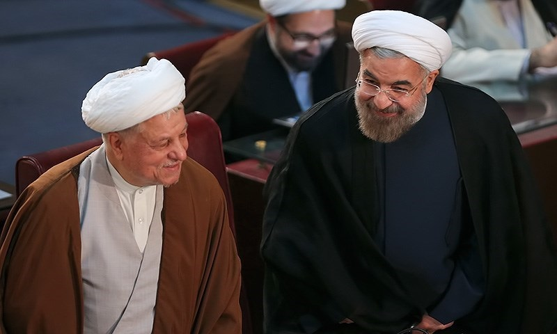 Hassan Rouhani and Akbar Hashemi Rafsanjani in Assembly of Experts